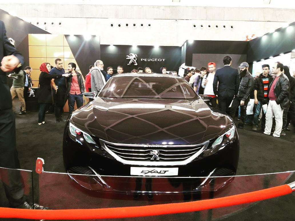 Picture taken by me from Peugeot's beautiful car at Tehran Auto Show.